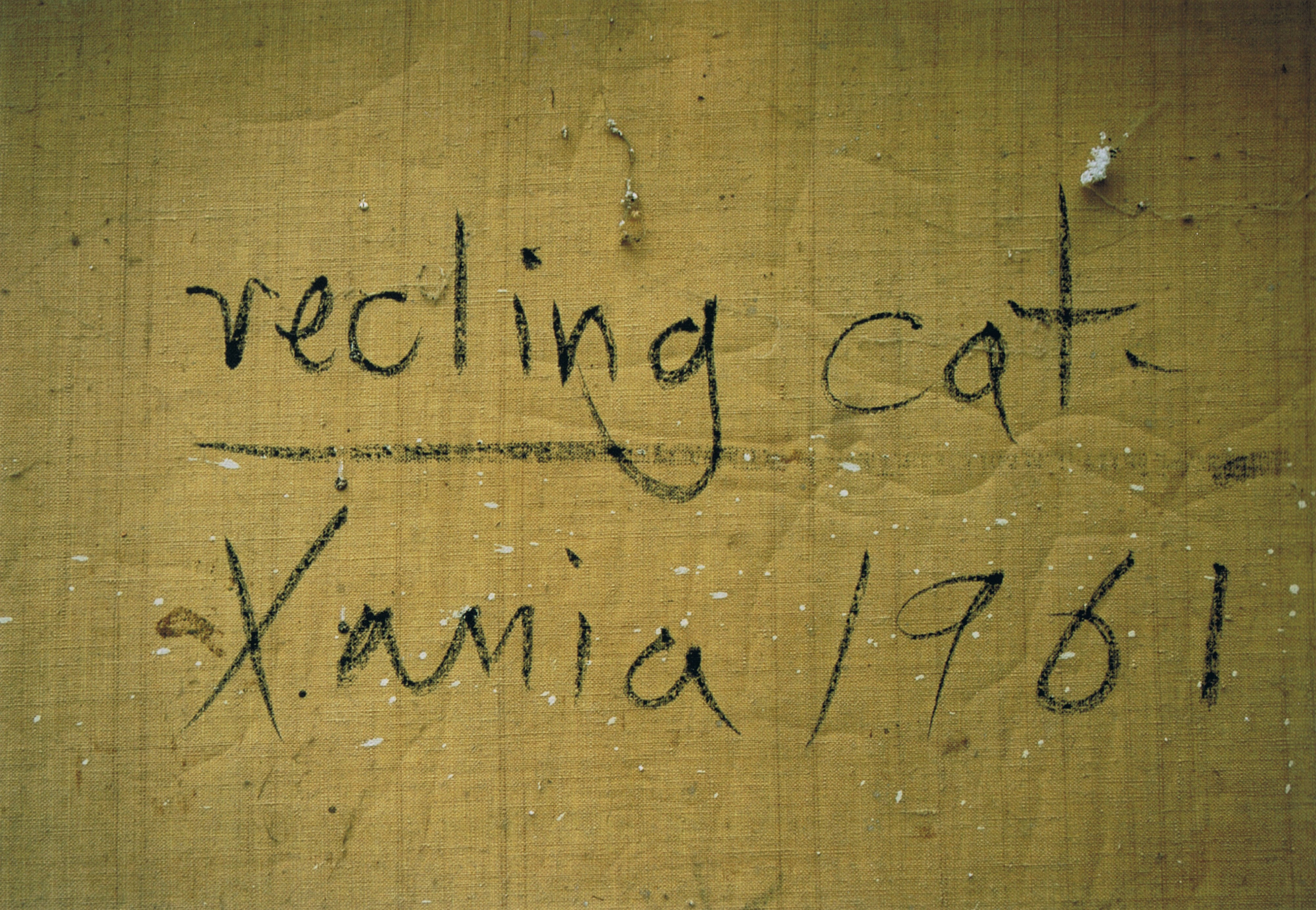 photo (by R. de Salis, August 2009) of the back of John Craxton's painting recling cat, Xania, 1961, Rodolph (talk) 19:21, 24 November 2009 (UTC)